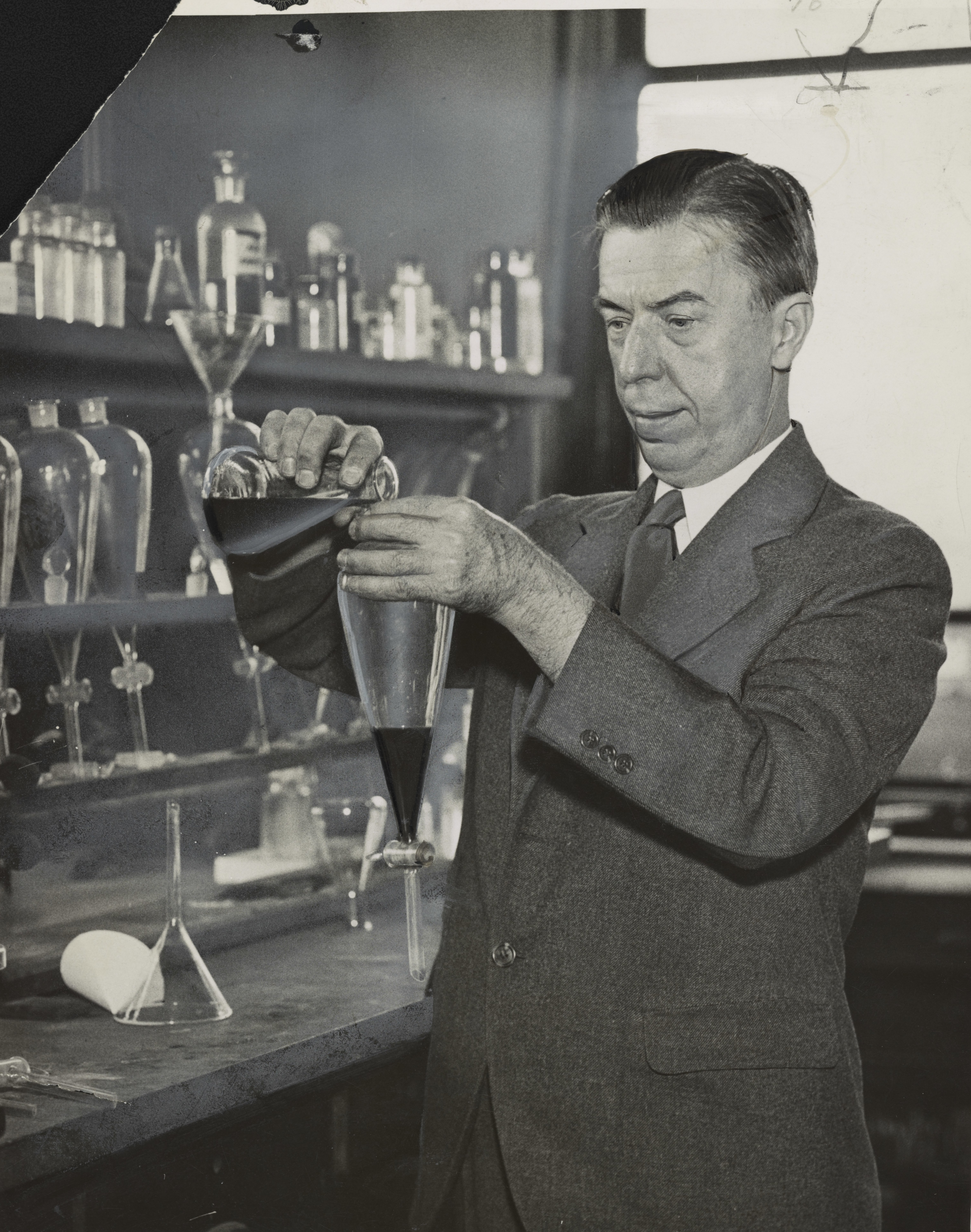 Title: Dr. Alexander Gettler, toxicologist and forensic chemist with the Office of Chief Medical Examiner of the City of New York, in a laboratory Abstract/medium: 1 photographic print.